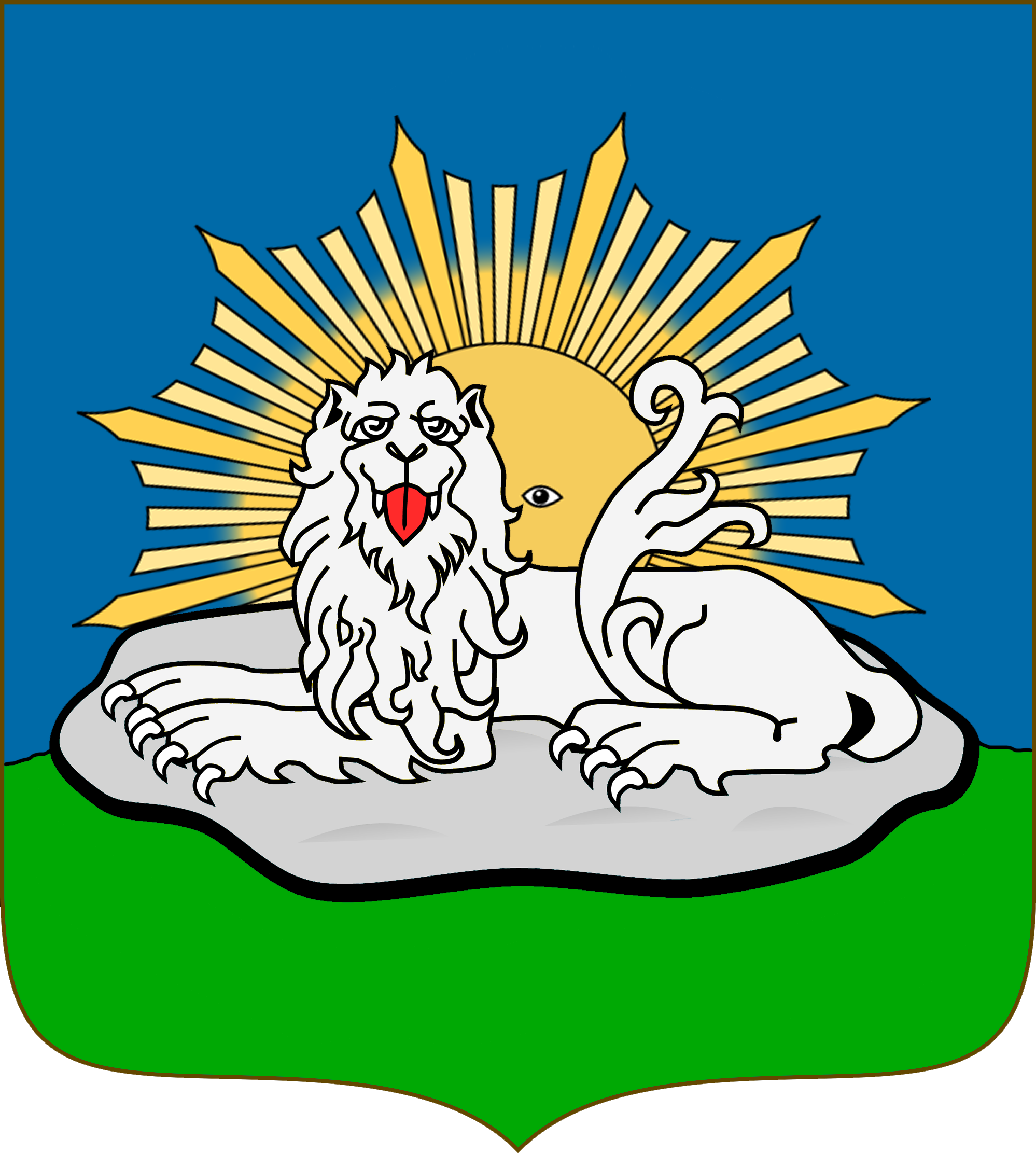 Bahmani coat of arms based on